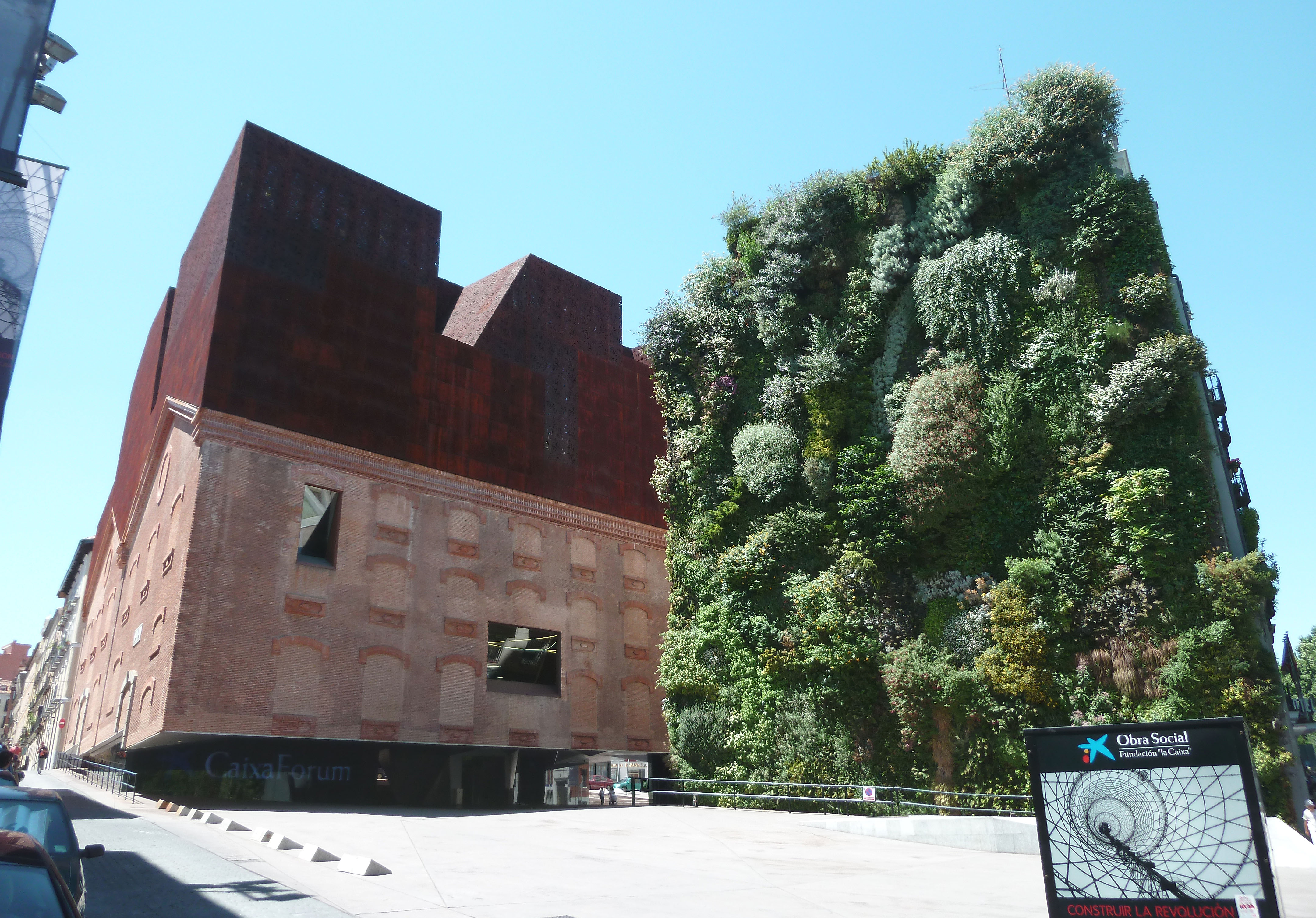 Façade of CaixaForum in Madrid (Spain).